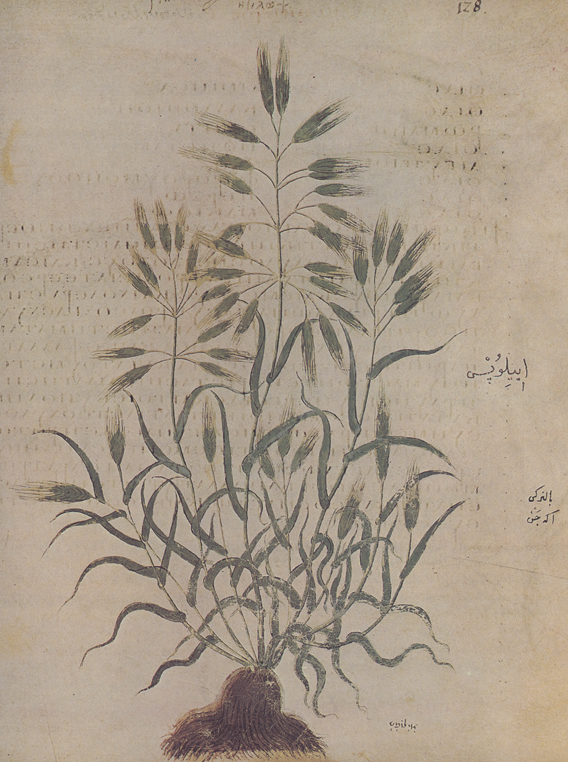 êgilôps folio 128r